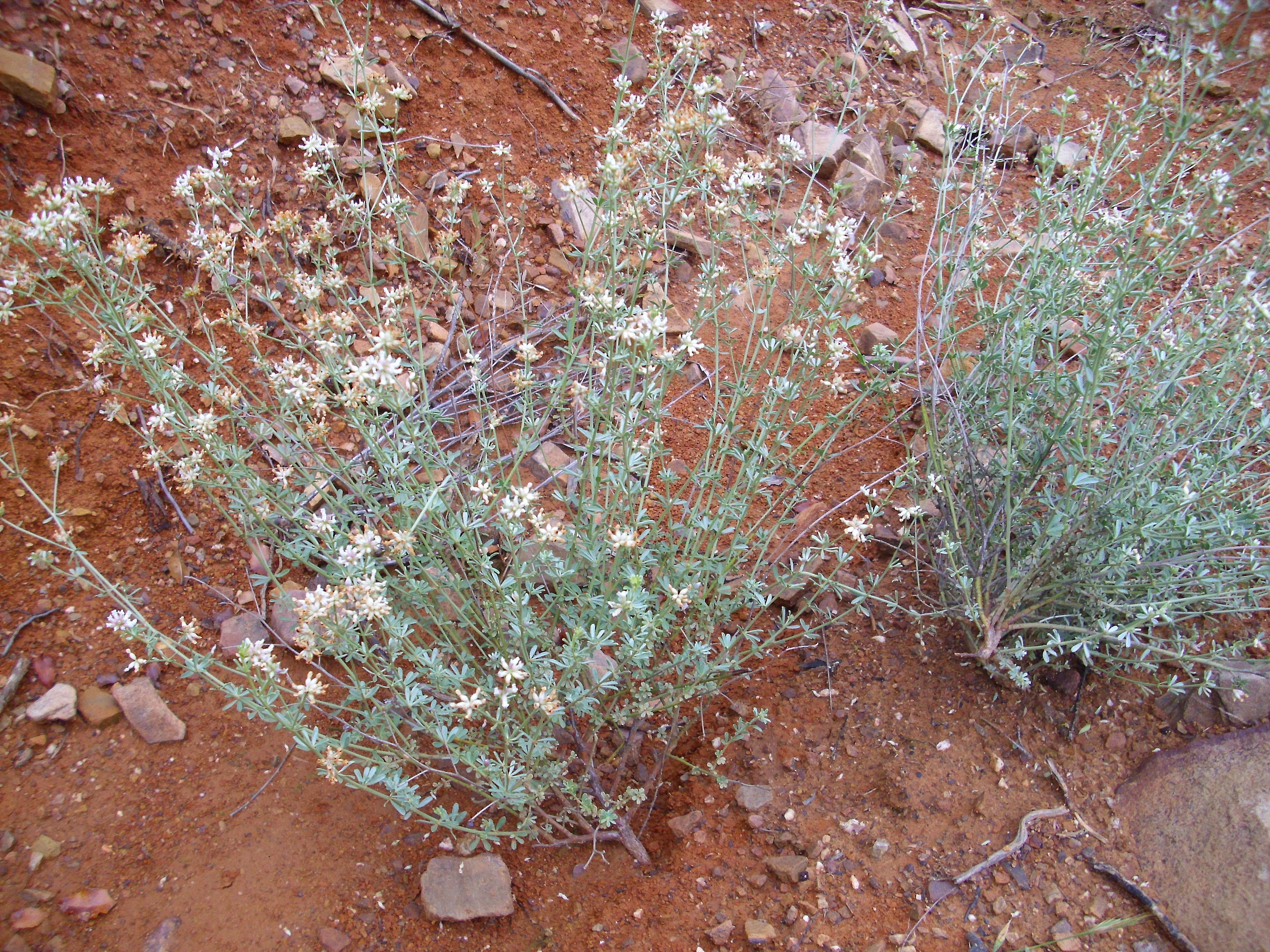 Dorycnium pentaphyllum habitat Dehesa Boyal de Puertollano, Spain